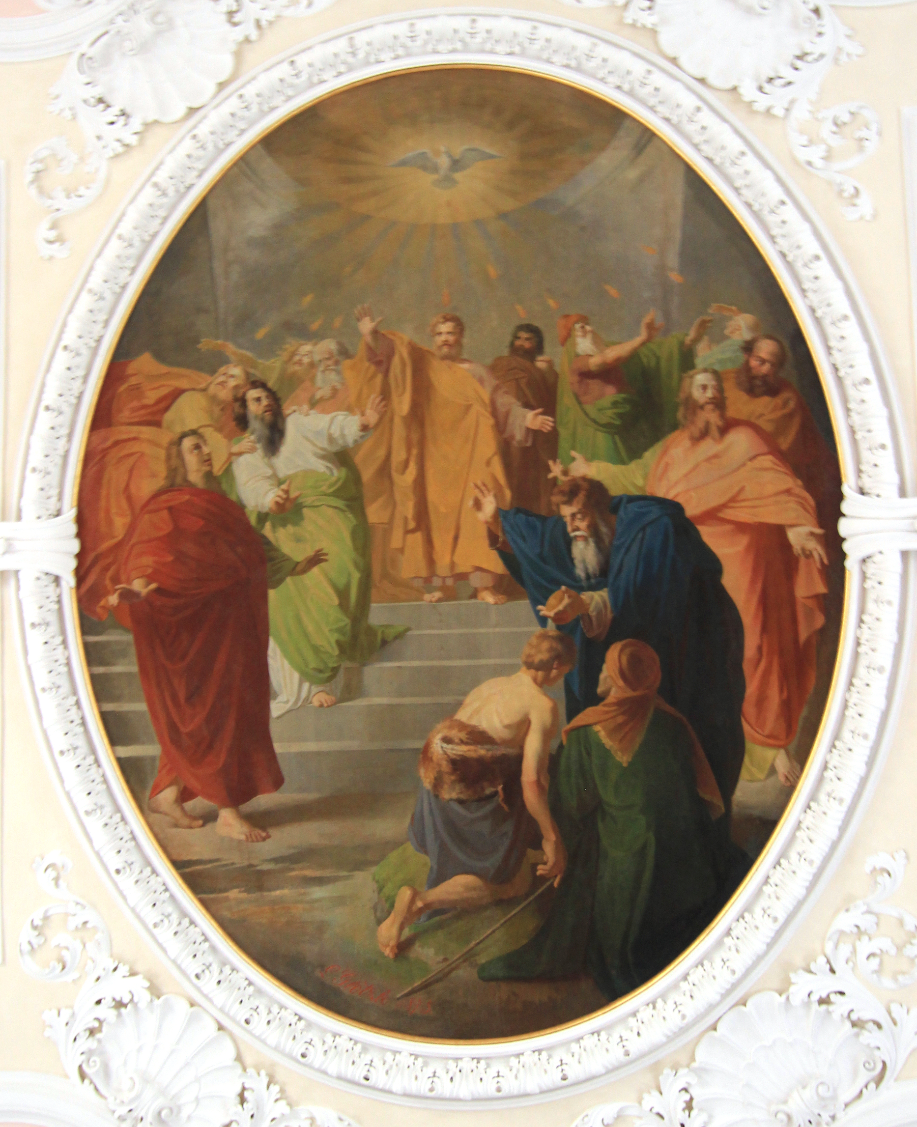 This is a photograph of an architectural monument. , Empfang des Heiligen Geistes